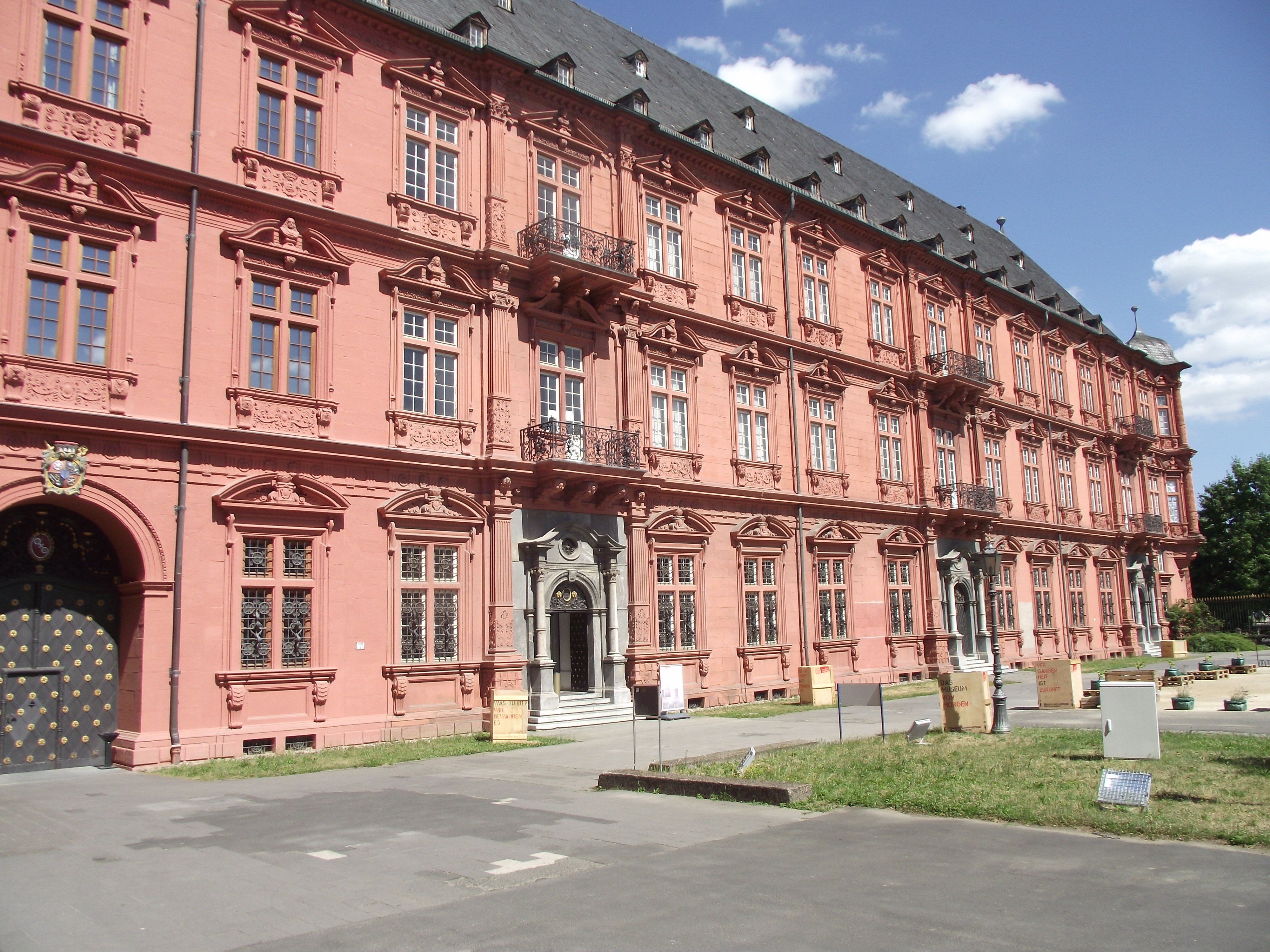 Mainz, Electoral Palace, 1627-1752